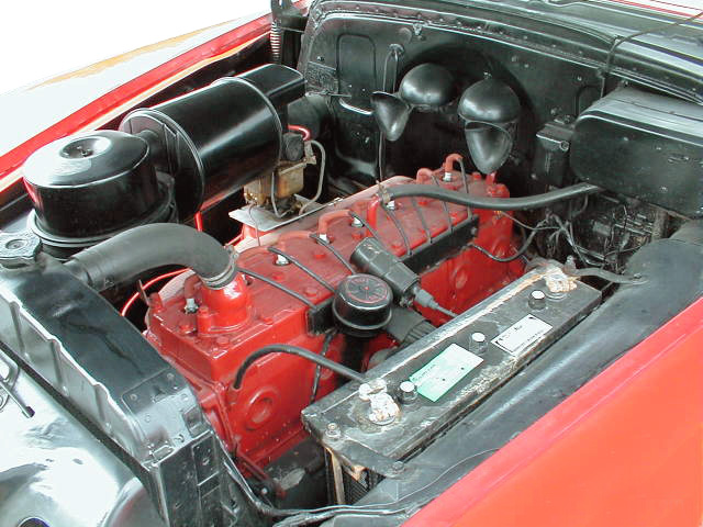 Front, driver's-side view of a Pontiac Straight-8 engine in a 1950 Pontiac Streamliner passenger car.